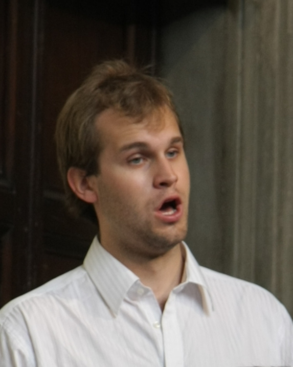 The British operatic baritone Ashley Riches giving an informal recital in the courtyard of Palazzo Strozzi, Florence, Italy